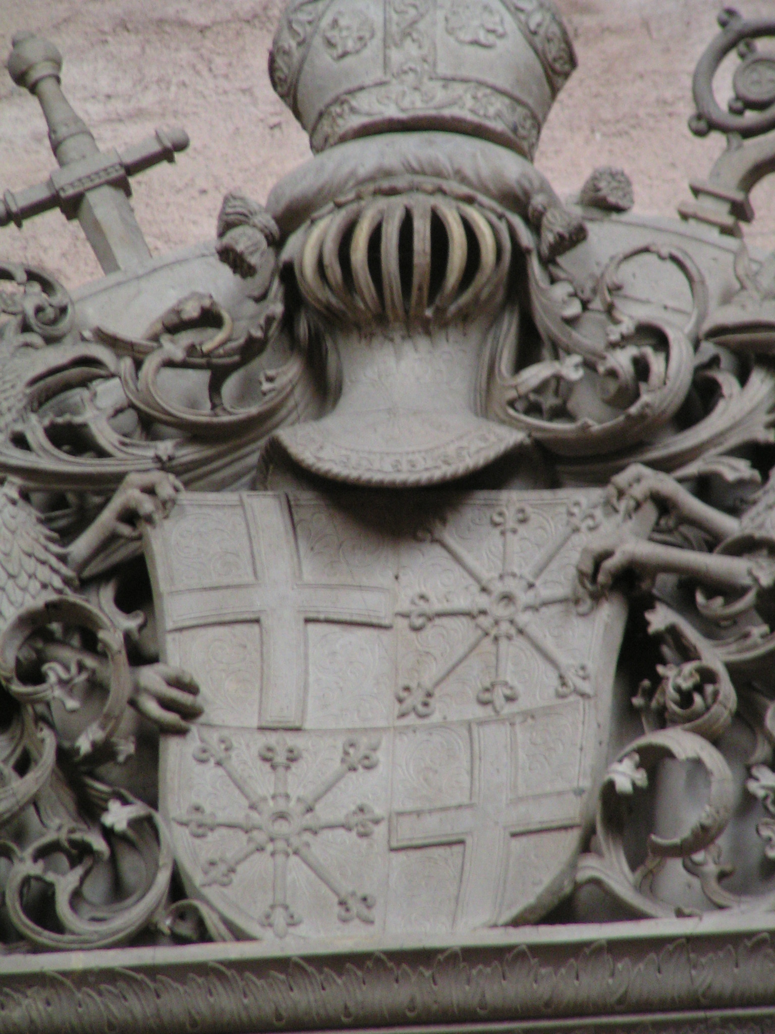 Cathedral of Trier, Rhineland-Palatinate, Germany